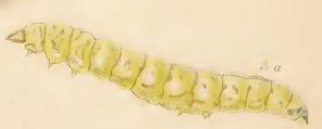 Stainton’s Natural History of the Tineina (1855–1873): Phyllonorycter emberizaepennella larva